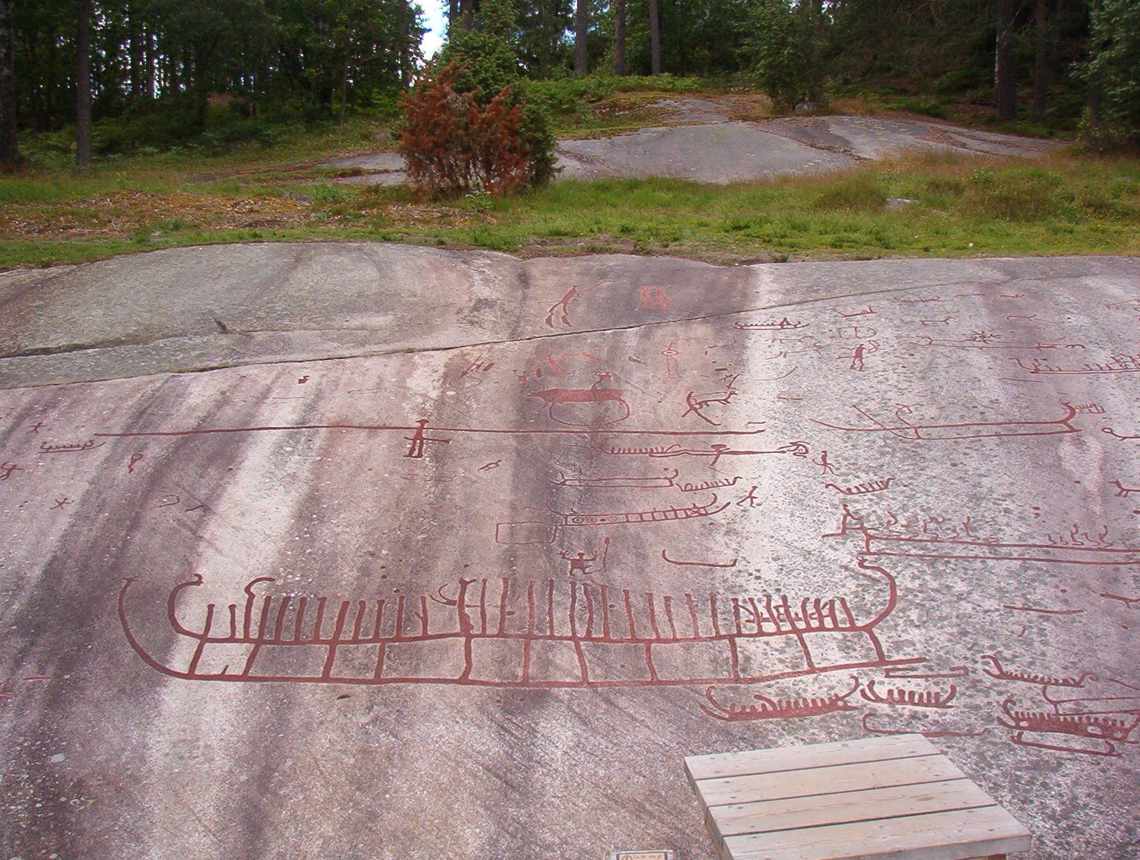 The flat rock of Vitlycke close up. With a large ship , some smaller boats, and a man with long arms.